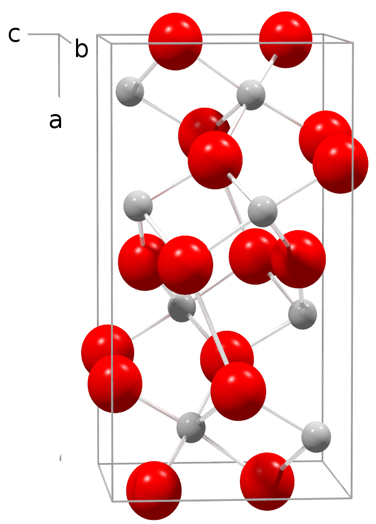 Brookite structure unitcell